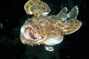 Picture of Lophius piscatorius